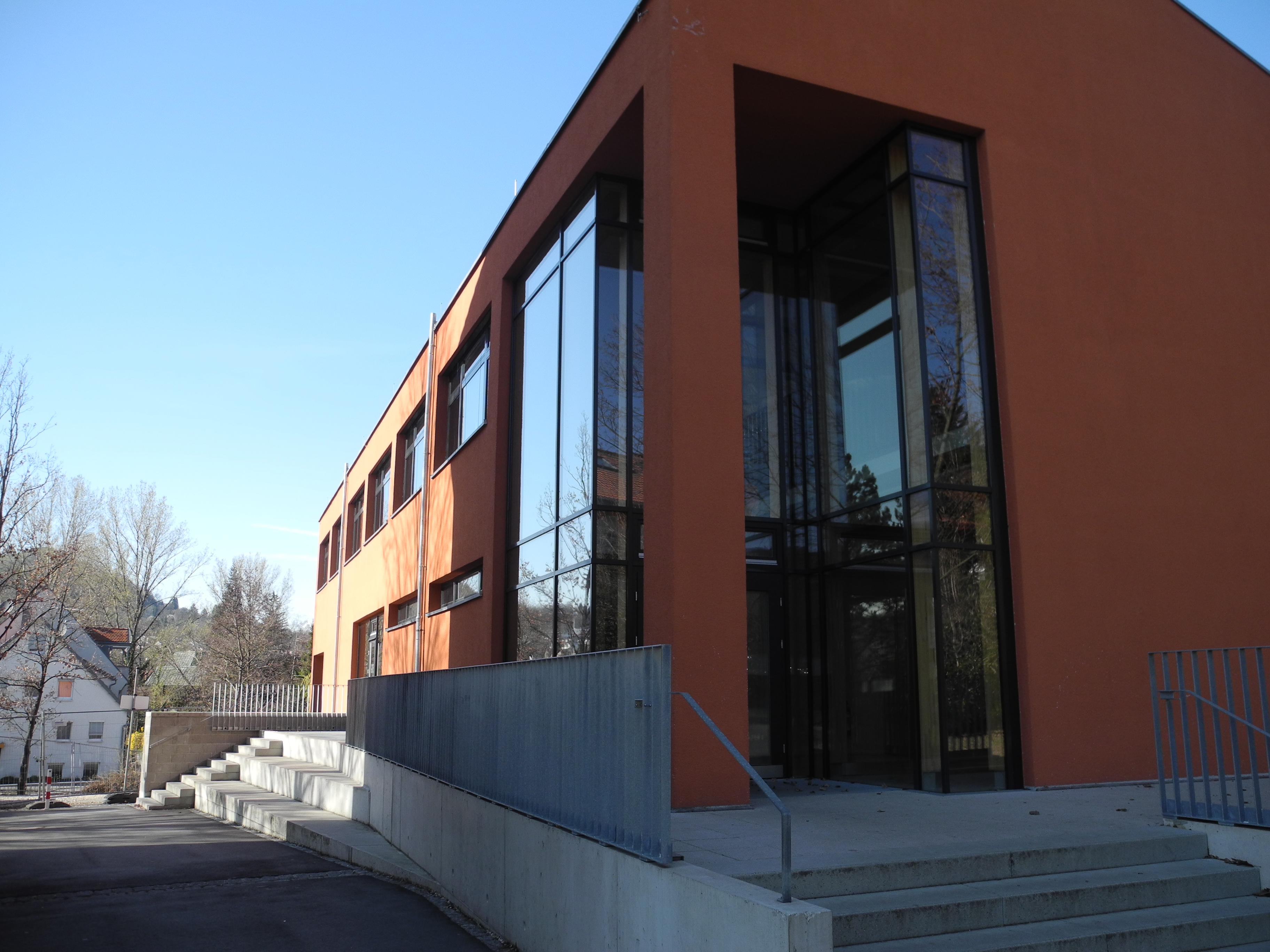 The D-Bau of the Friedrich Schiller Gymnasium in Pfullingen.